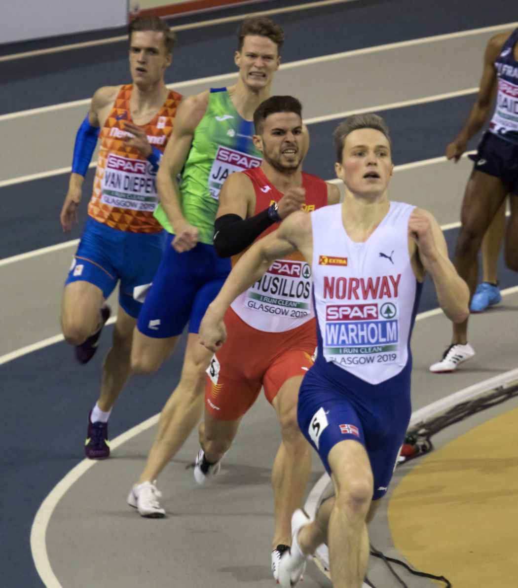 men's 400m final, Glasgow 2019